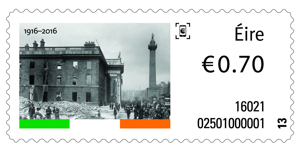 One of 16 An Post 70¢ 1916 Easter Rising centenary postage stamps - illustrating the destroyed General Post Office in O'Connell Street (Sackville Street)